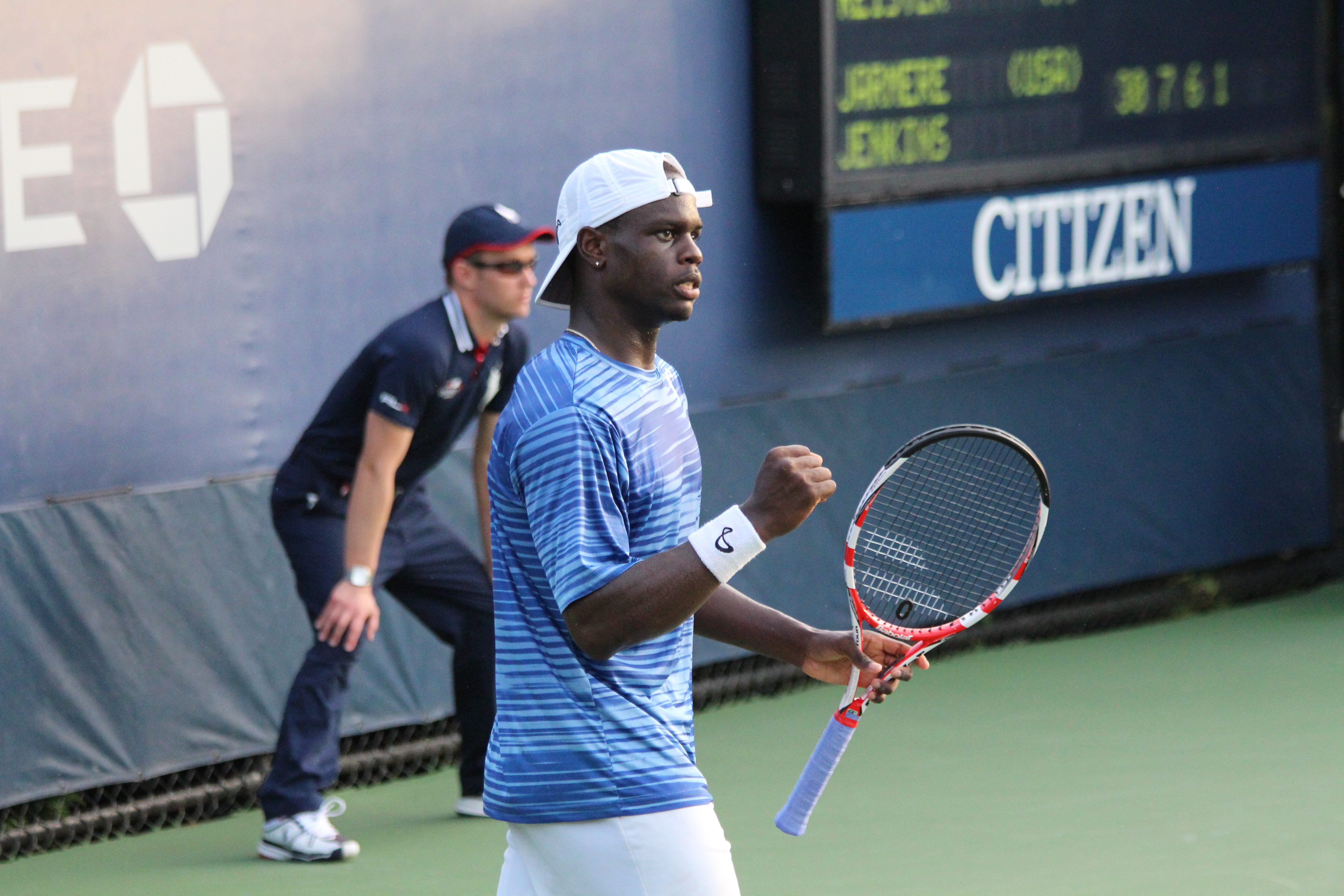 Photo taken of Jarmere during his second round of qualies match.